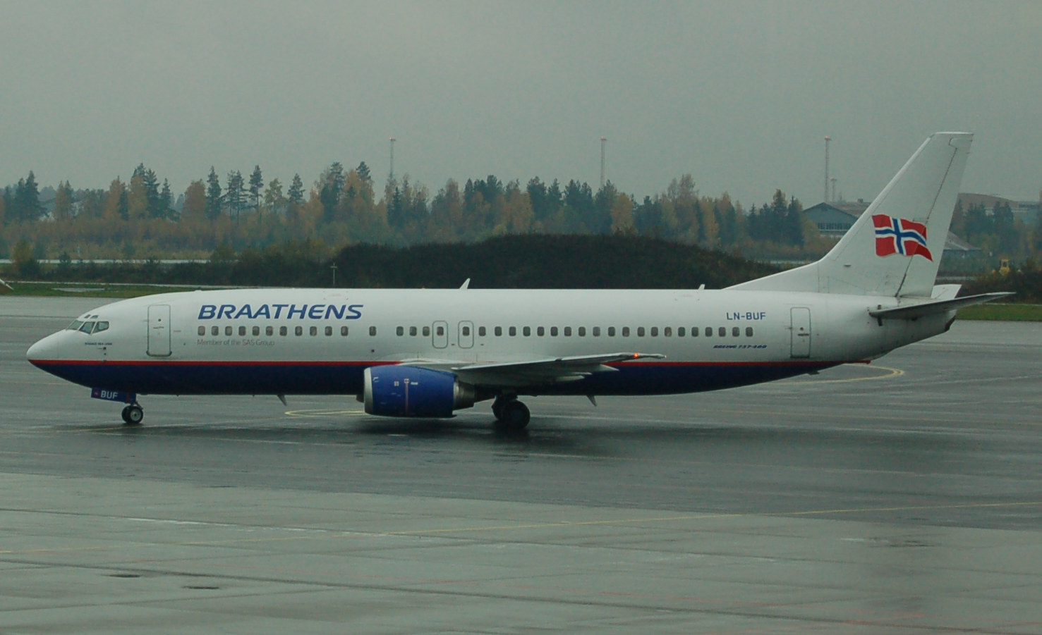 Braathens livery SAS Braathens Boeing 737-400 aircraft LN-BUF at Oslo Airport, Gardermoen on October 21, 2006.